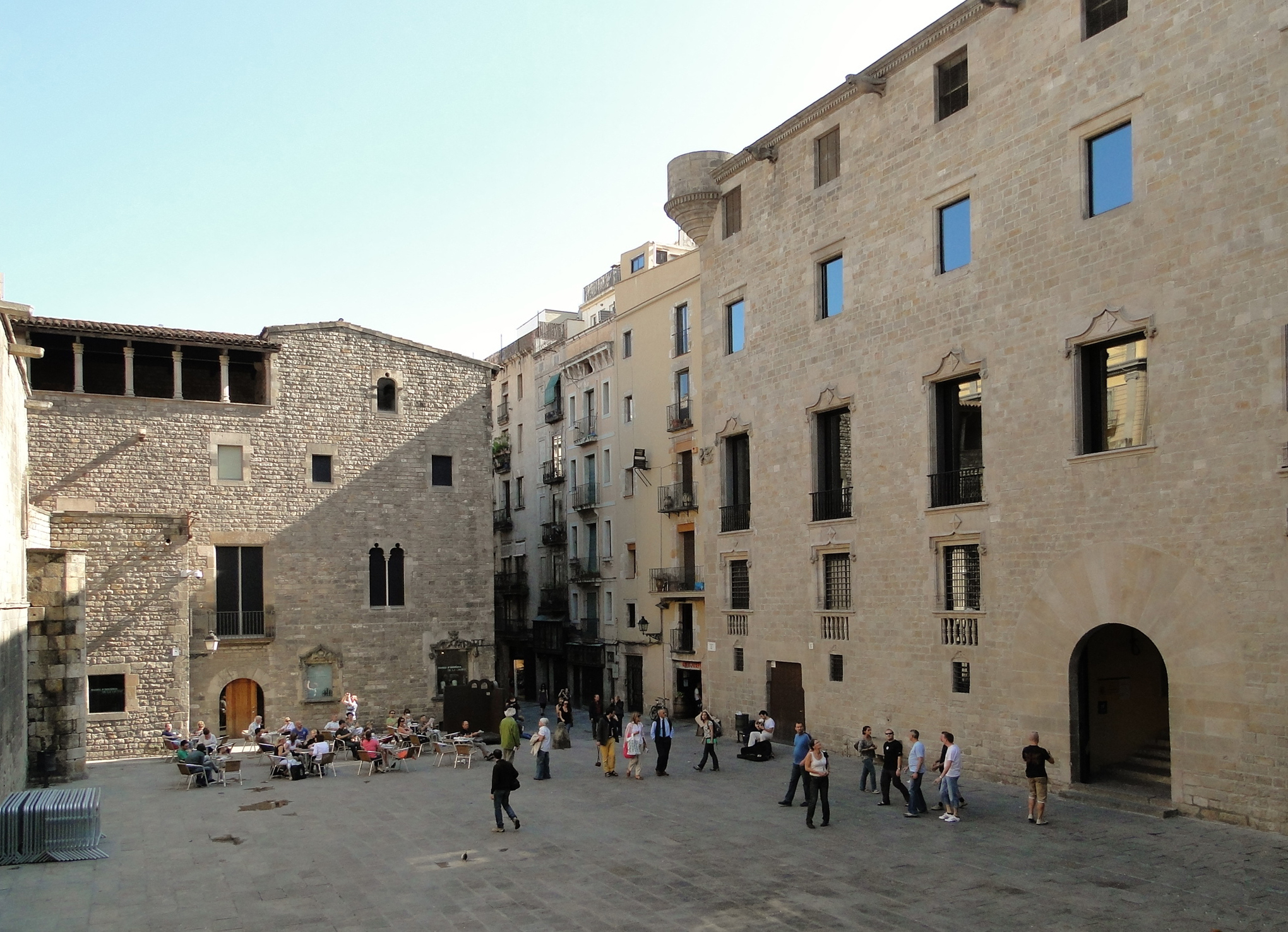 Plaça del Rei with Palau del Lloctinent on the right, Barcelona, Spain